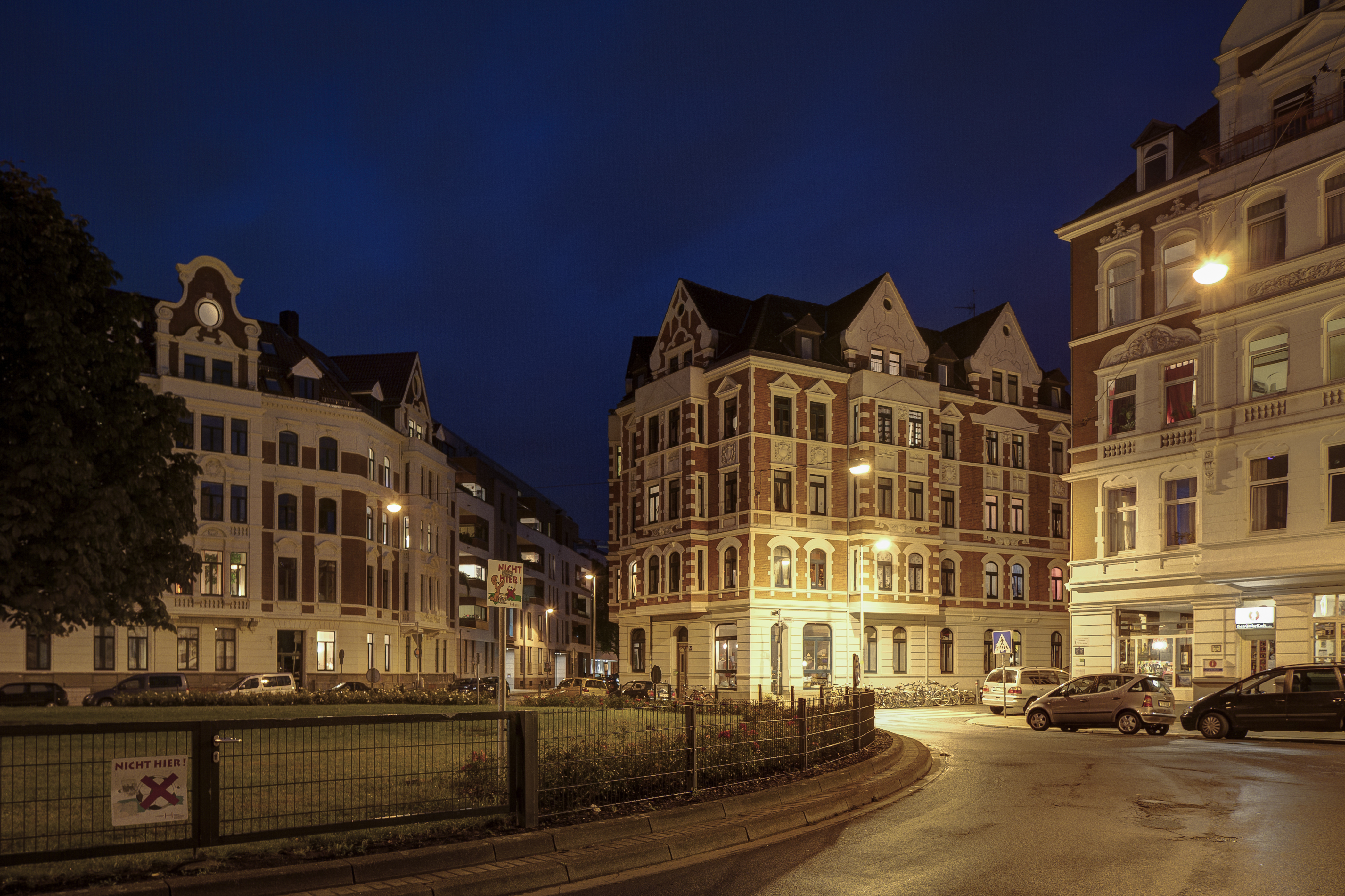 Lichtbergplatz, Linden central, Hanover, Germany.